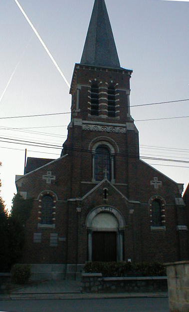 Church of Pellaines Walon: eglijhe di Pelinne (poirtrait saetchî pa L. Mahin)